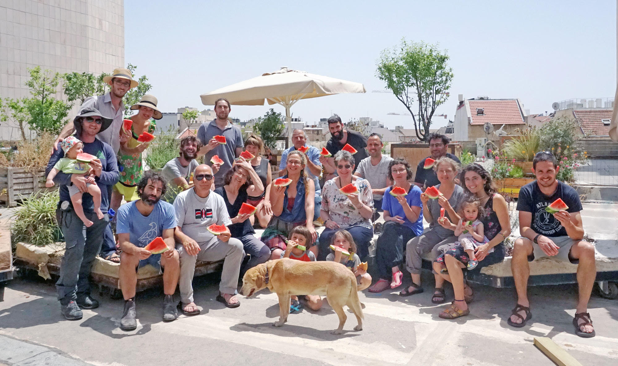 The Terrace of Muslala